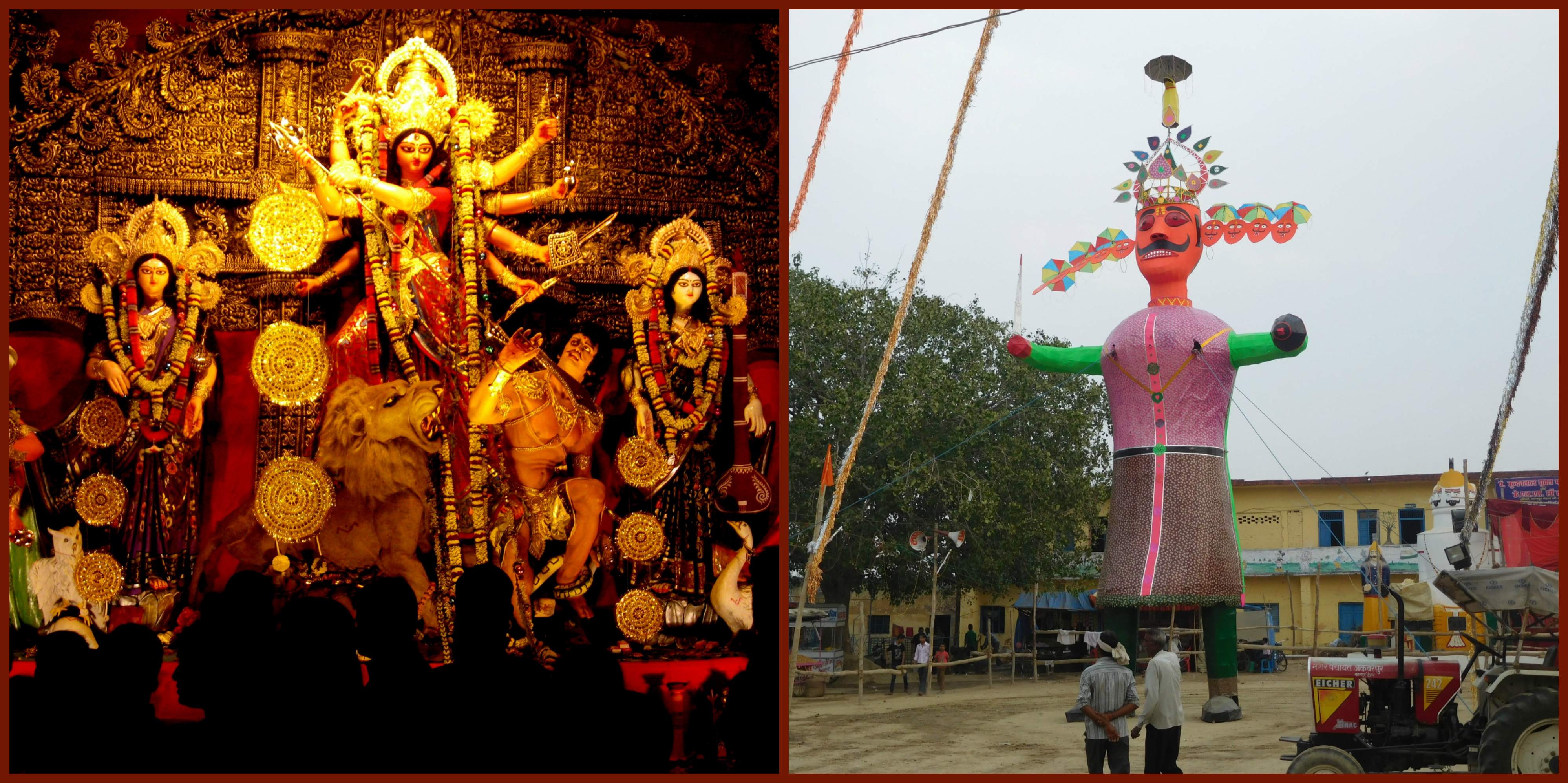 Derivative of the following wikimedia common files: Navratri - the festival of Maa Durga.jpg Effigies of Ravana.JPG